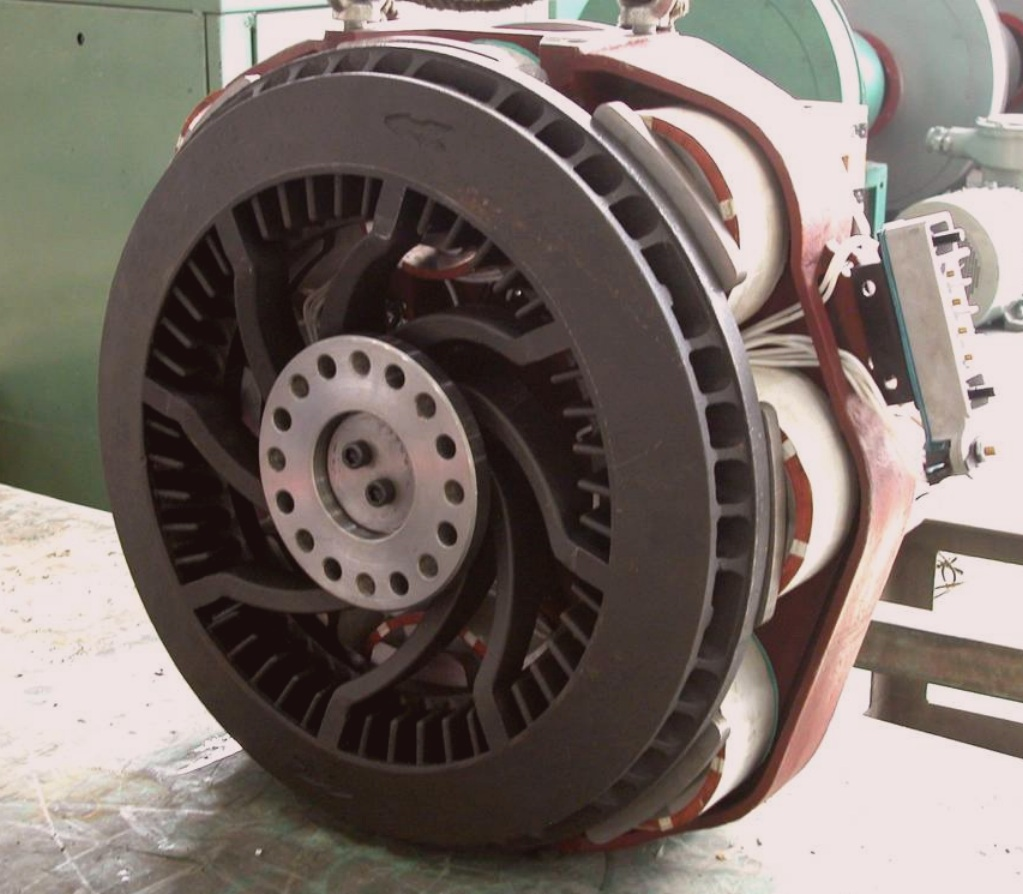 Truck Electric retarder Brake